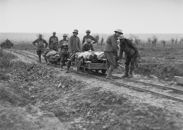 AWM caption : Members of the 5th Australian Field Ambulance bringing in wounded during the Australian attack at Broodseinde Ridge [The Battle of Broodseinde], in the Ypres Sector. This photograph, taken between Ideal House and Westhoek, shows the useful light railway by which the majority of the casualties of that sector were transported to Westhoek Ridge, being taken from there by horse ambulance back to Birr Cross Roads, from which loading post they were removed in motor ambulances to the advanced dressing stations on the Menin Road. Identified, at the front pulling the stretcher cart are : 16693 Lance Corporal (LCpl) J T Duggleby (standing between the railway lines) 2975 LCpl C H Montague